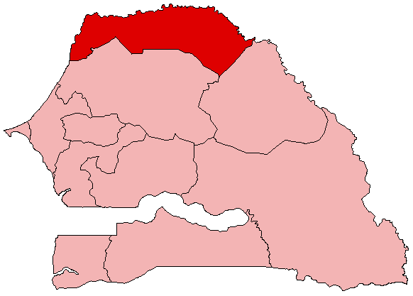 Map of Saint-Louis region, Senegal.